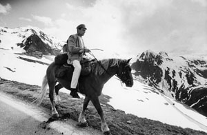 Hafis Bertschinger